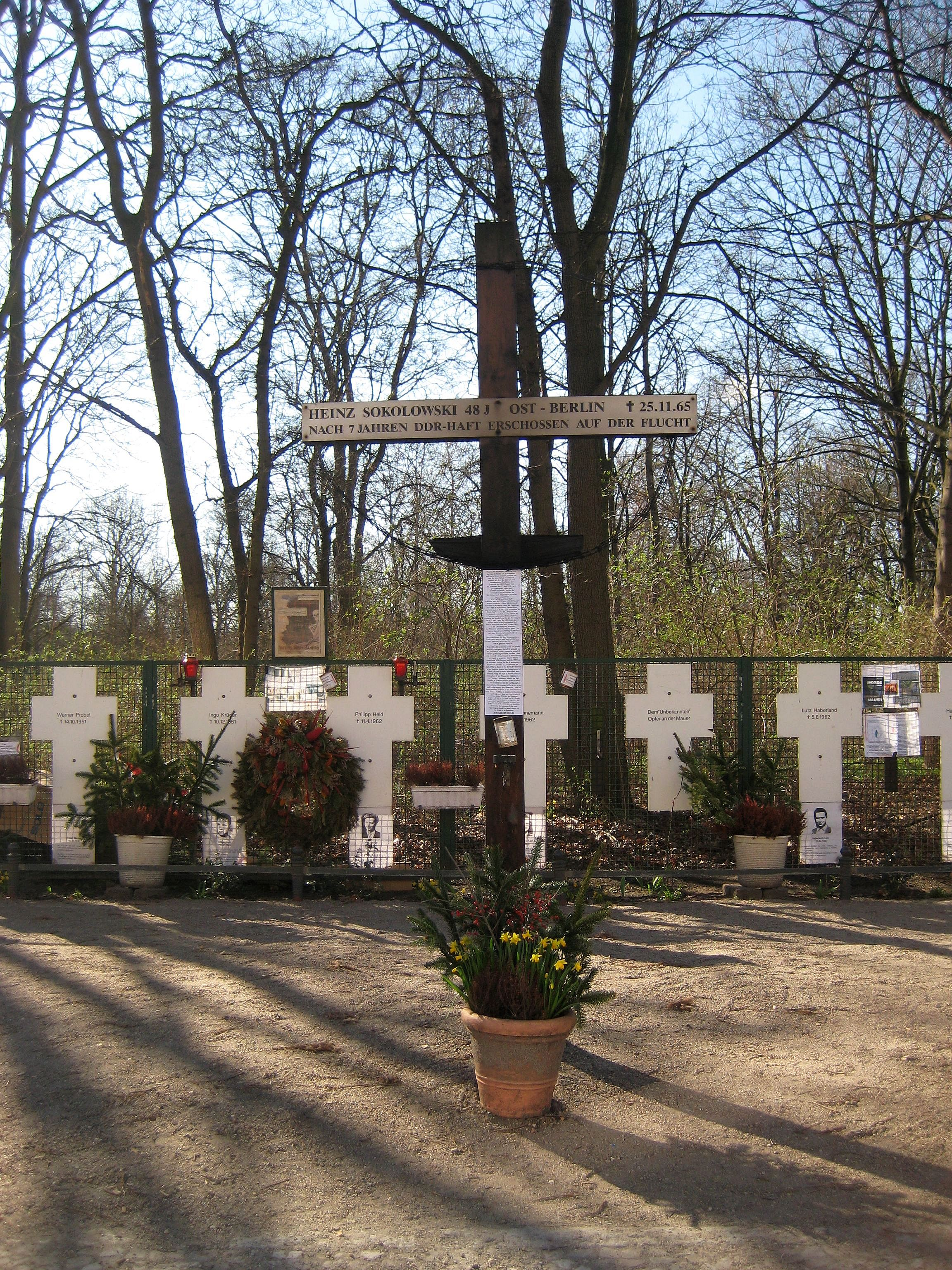 Memorial crosses for victims of the Berlin Wall at Ebertstraße in Berlin. The large cross is for Heinz Sokolowski, who, during an attempt to escape to West Berlin in November 1965, was shot to death nearby.